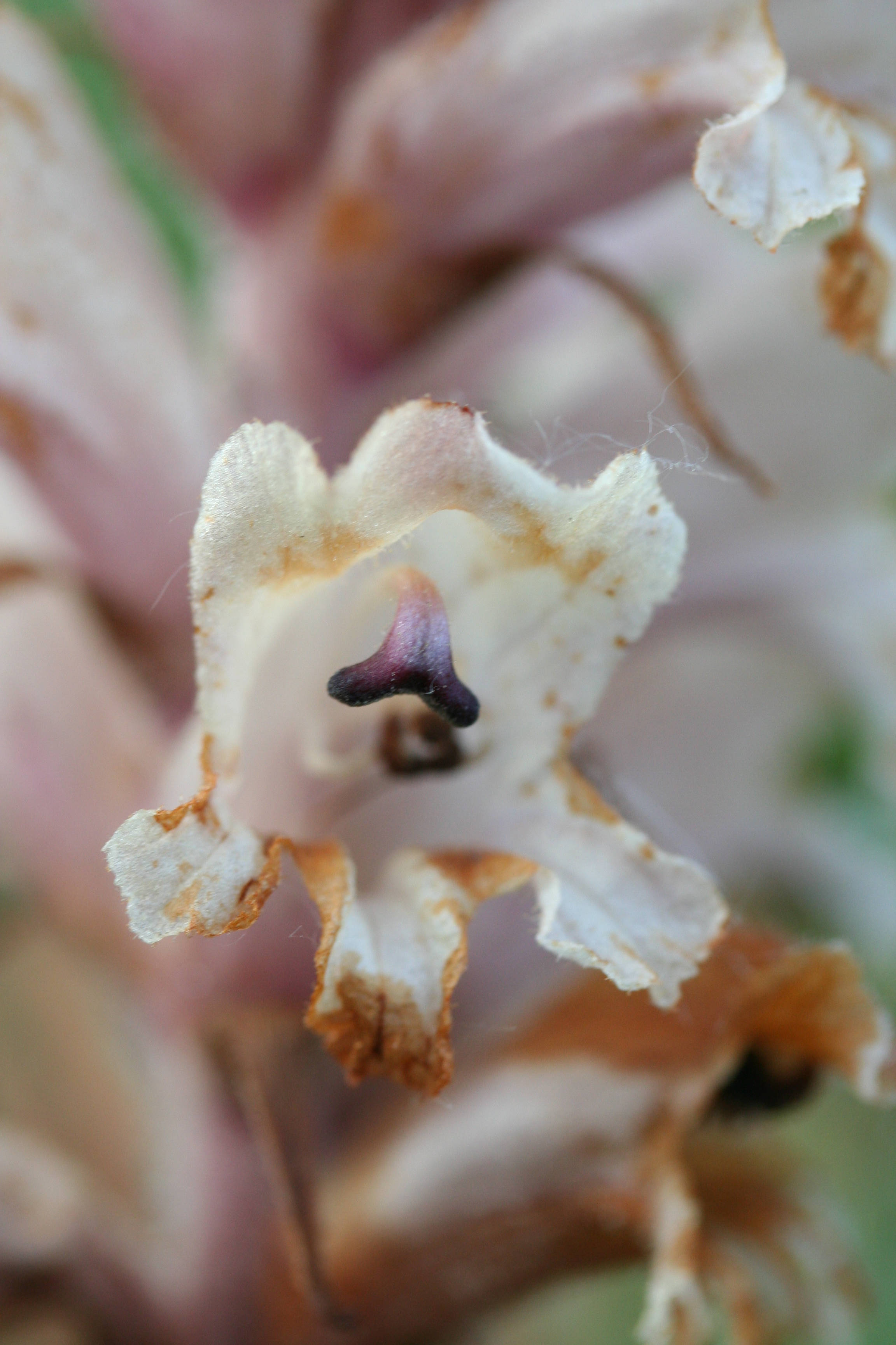 Orobanche minor 7 Juni 2006 IJmuiden, the Netherlands